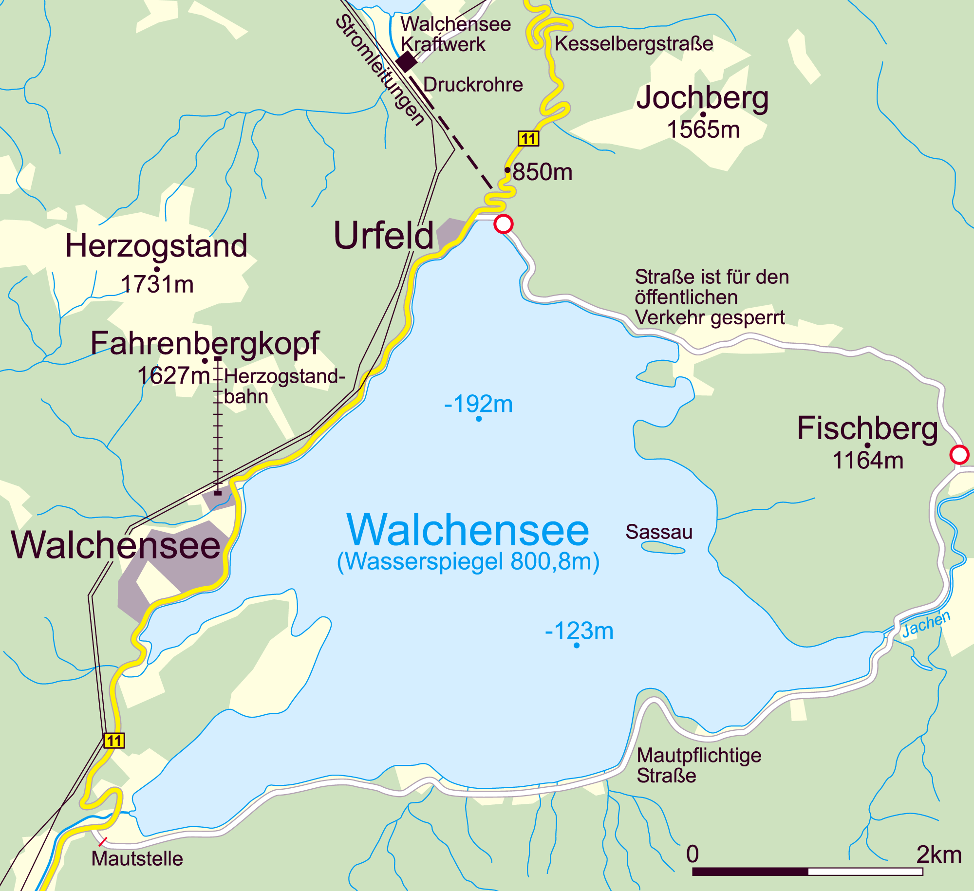 Walchensee (Lake) in Upper Bavaria